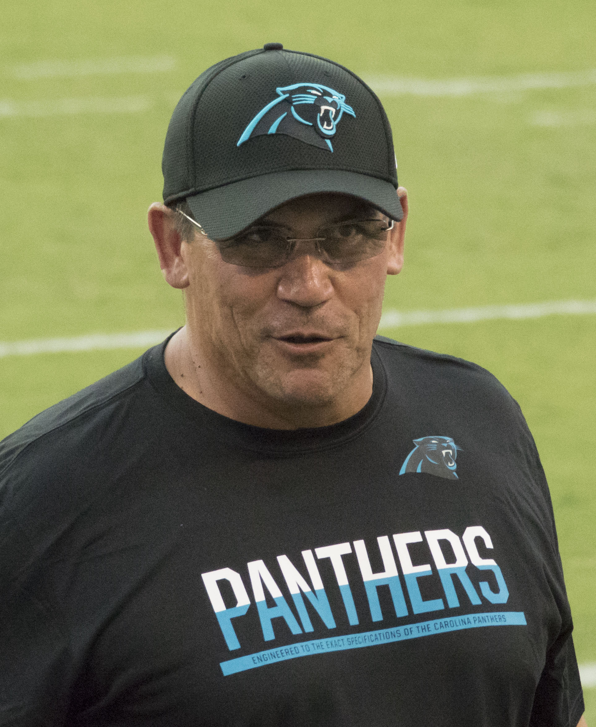 Panthers at Ravens 8/11/16